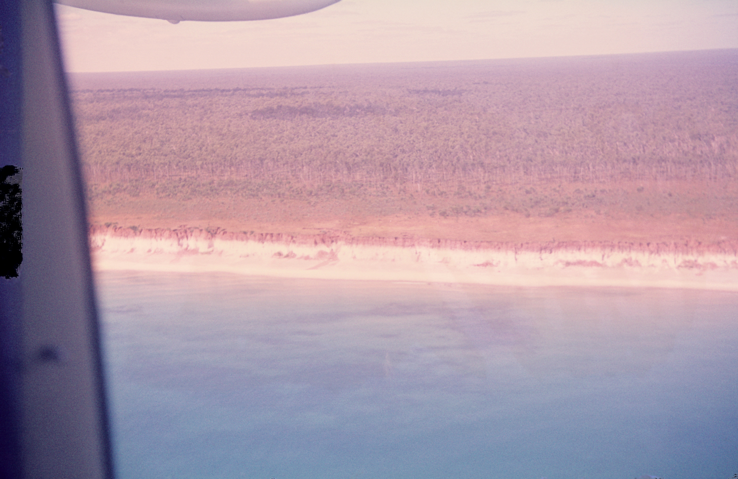 Extensive bauxite layer (reddish-brown) on kaolinitic sandstone (white) at Pera Head. Bauxite deposit Weipa, Australia